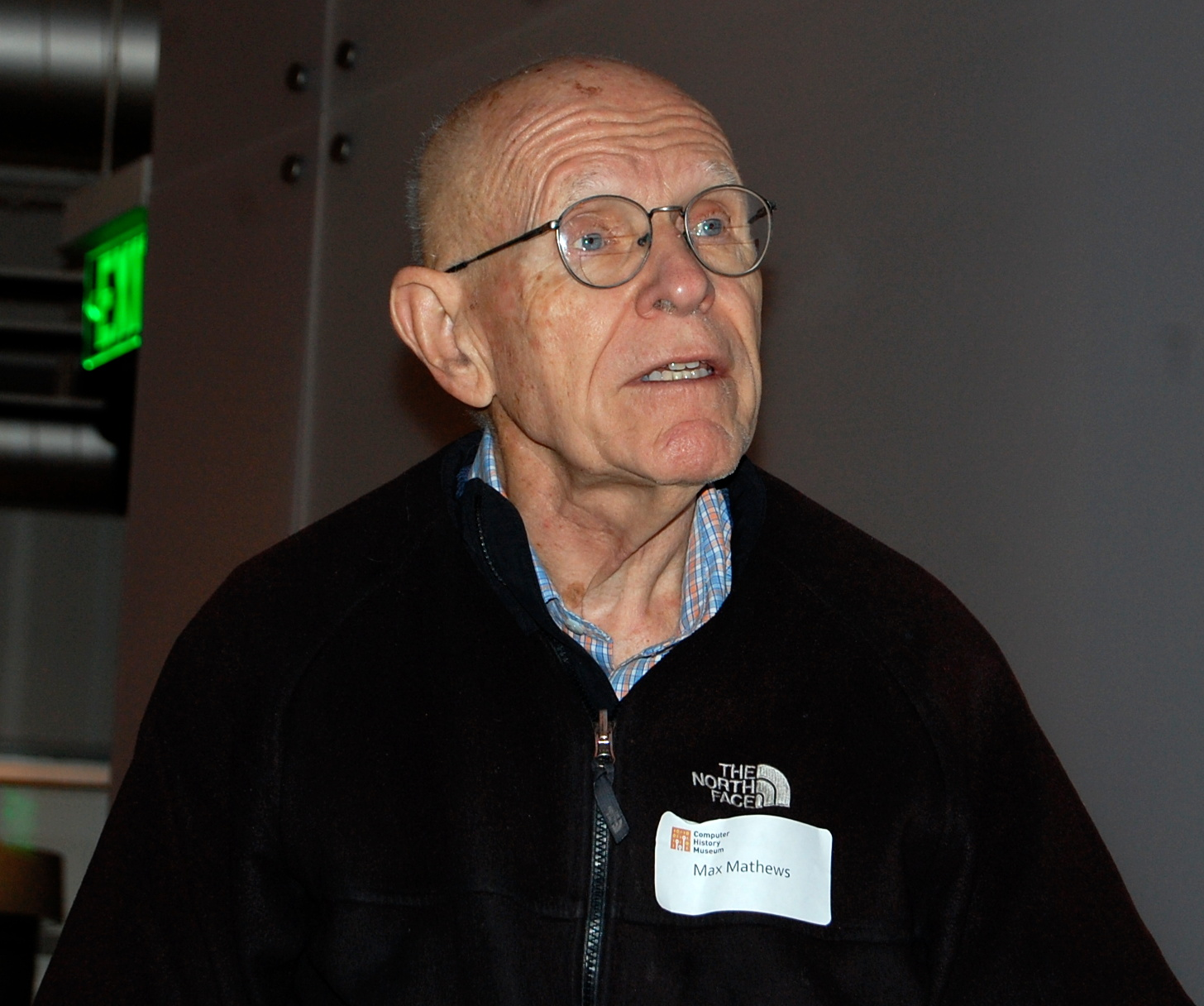 Max Mathews at the opening event of Computer History Museum's Revolution exhibition